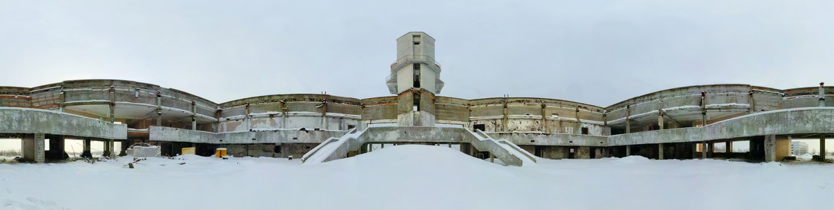 Airport Ust-ilimsk